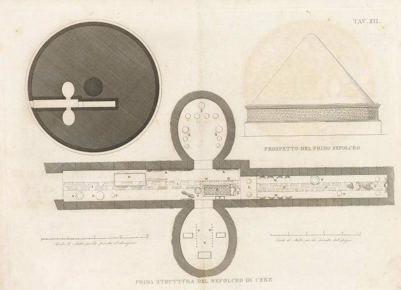 Plan of the Tomba Regolini-Galassi.